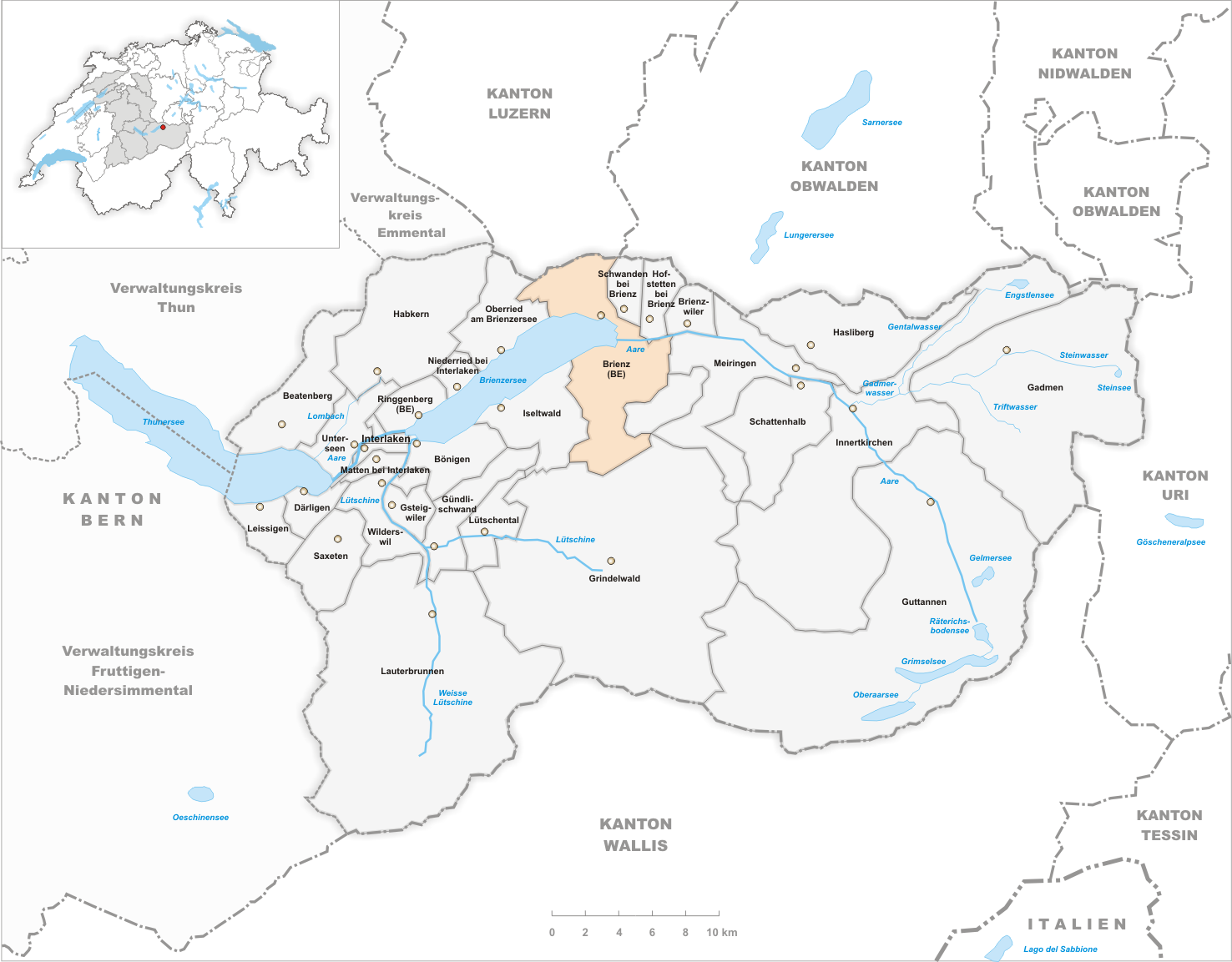 Municipality Brienz